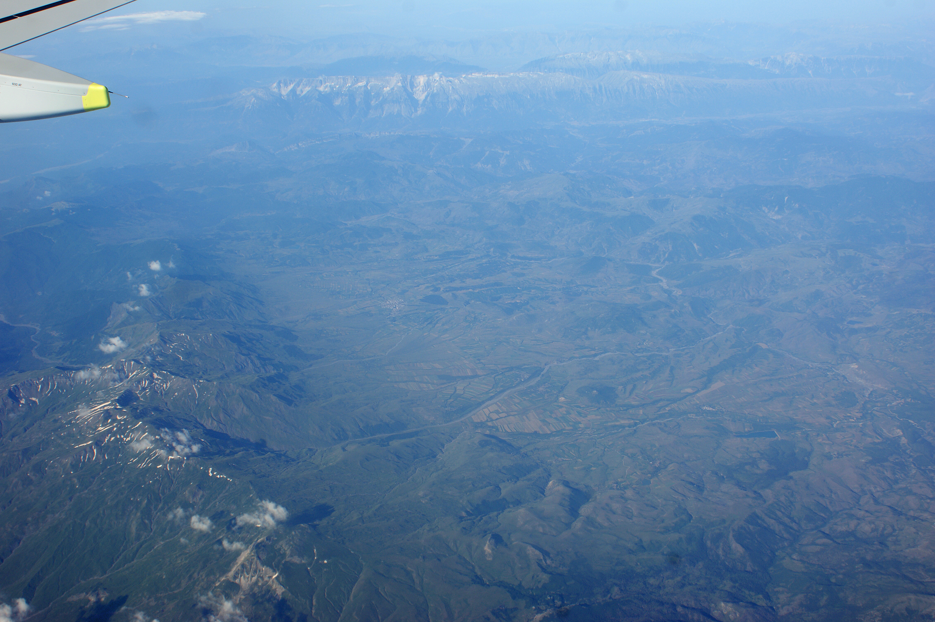 Kolonja, Southern Albania. Pindus Mountains with Greek border to the left, Nemërçka Mountains in the background. City of Erseka in the center